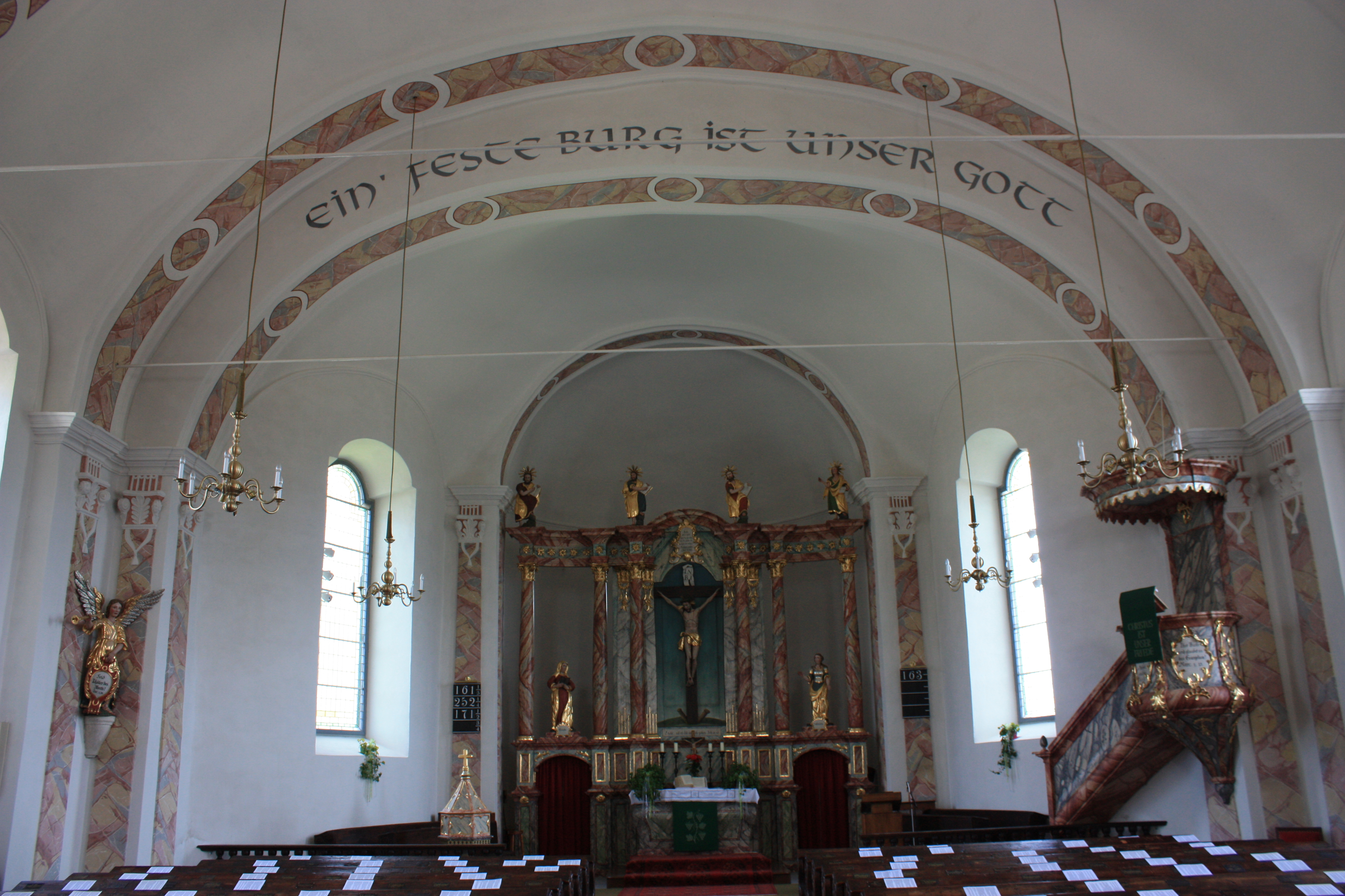 Lutherian Church - Interior Locality:Zlan Community:Stockenboi